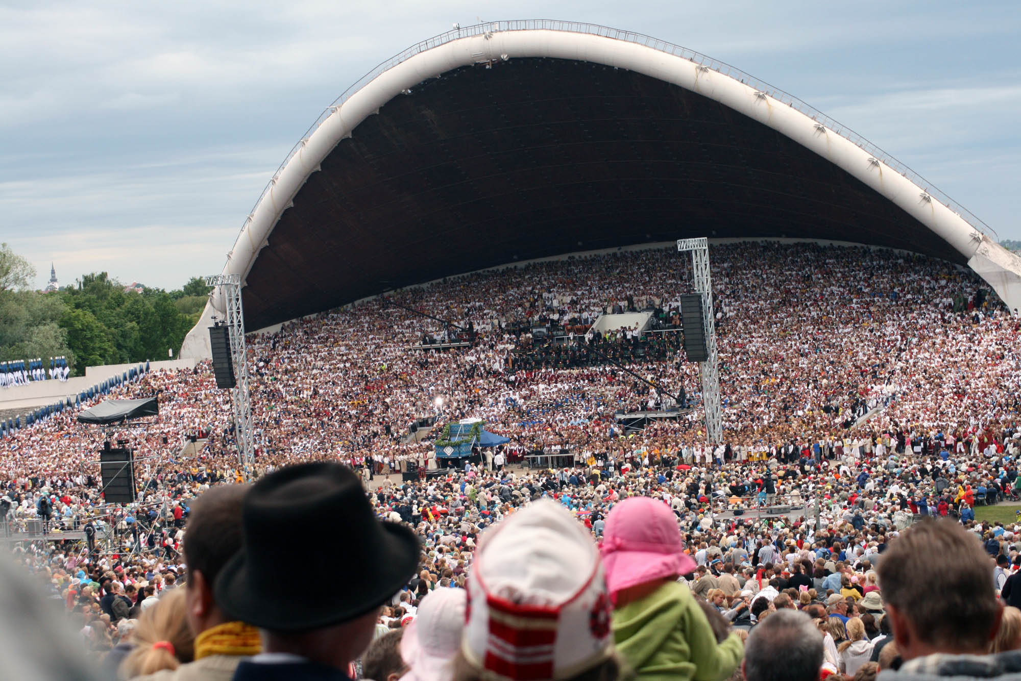 Tallinn song and dance festival 2009